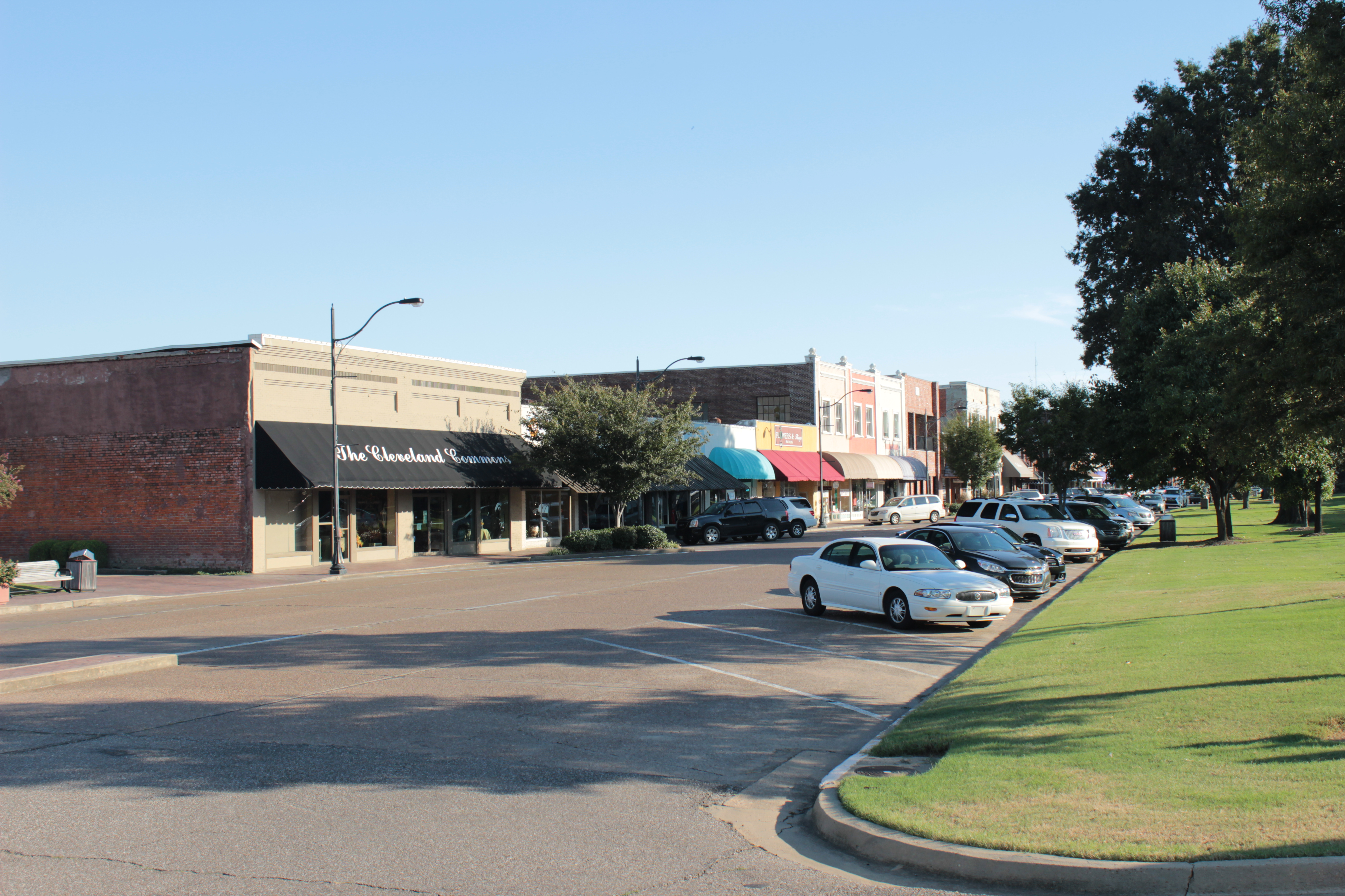 Downtown Cleveland Historic District, Roughly bounded by Bolivar Ave., 1 block north of 1st St., Commerce Ave., and Collins St.; also 201 S. Court St. and 200-215 N. Pearman Ave. Cleveland